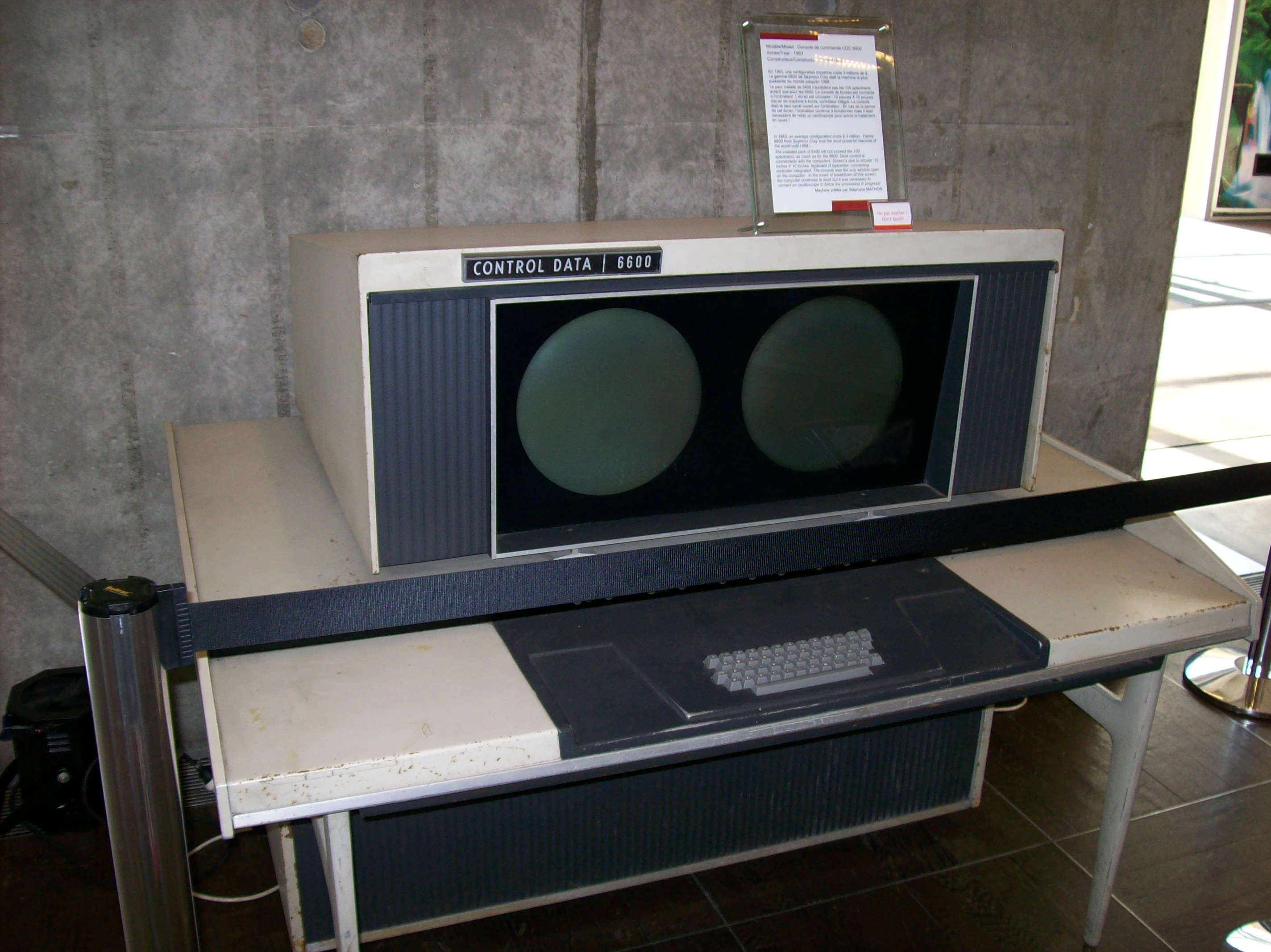 Control Data 6600 mainframe - Exposition - Grande Arche - Paris